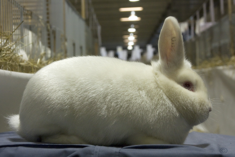 Satin rabbit